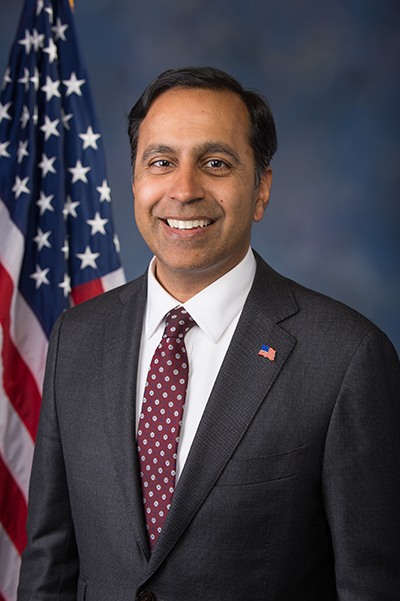 United States Congressman Raja Krishnamoorthi